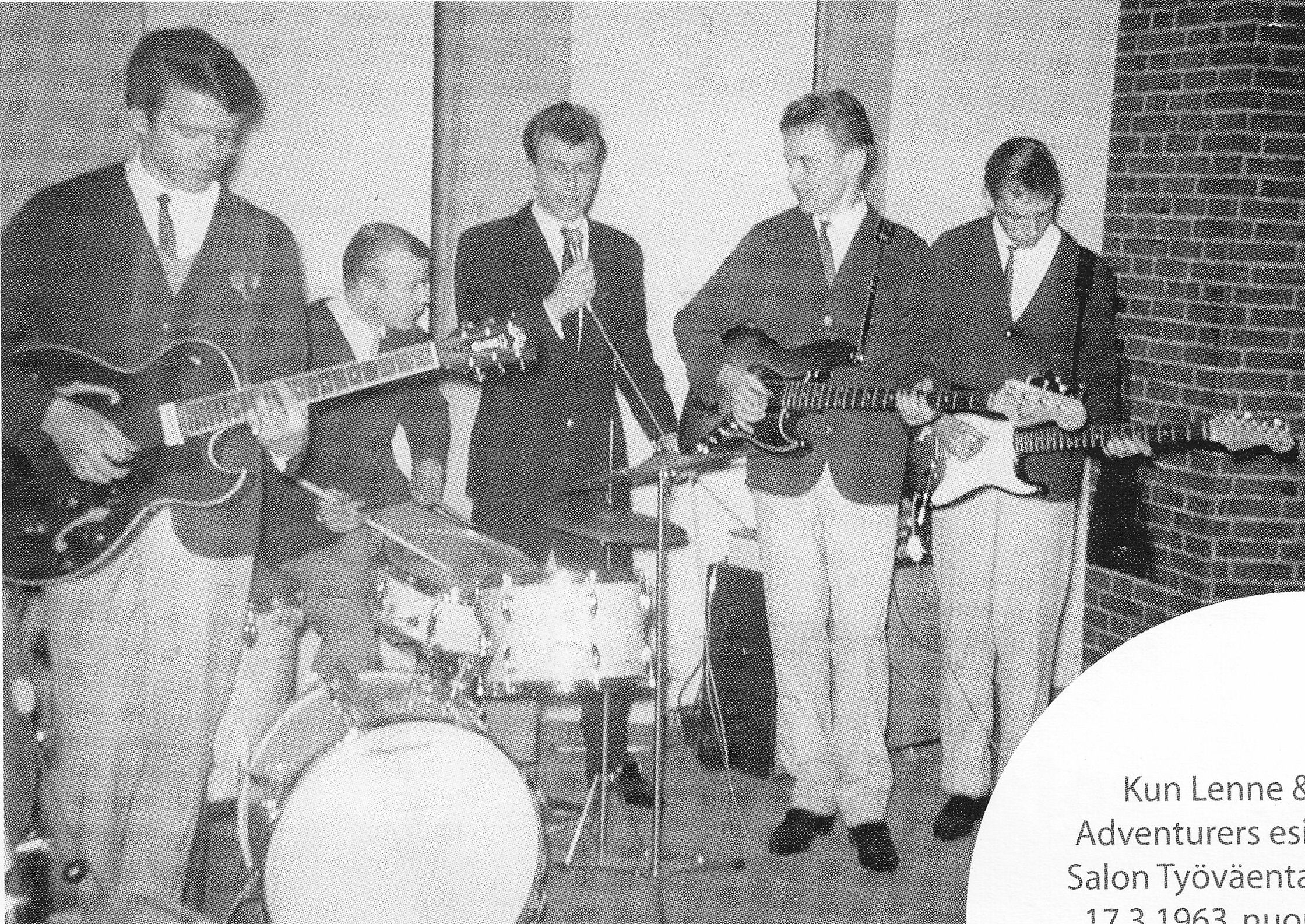 Svedish group Lenne & the Adventures